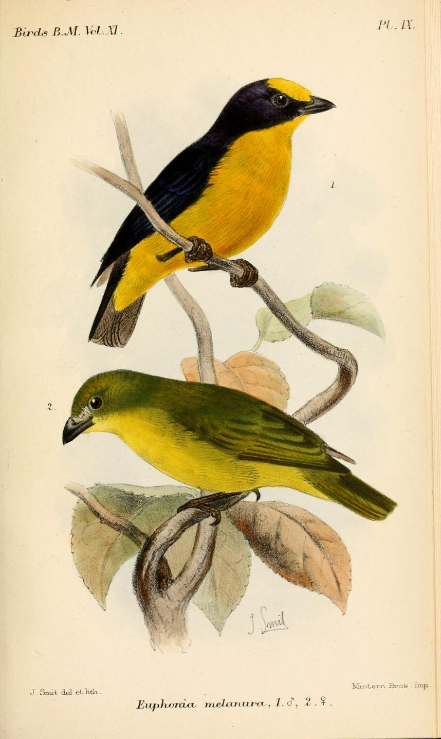 Euphonia melanura = Euphonia laniirostris melanura, Thick-billed Euphonia ssp.